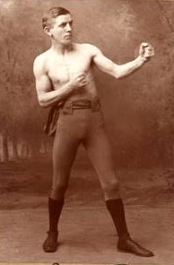 Jimmy Barry, boxer.